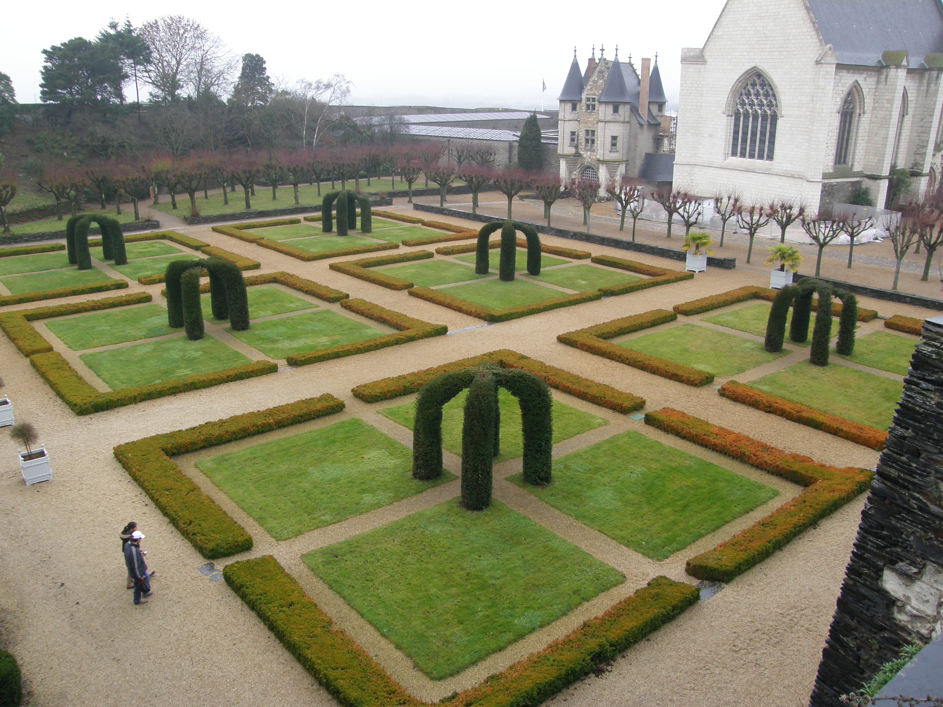 Inner view of the Château d'Angers